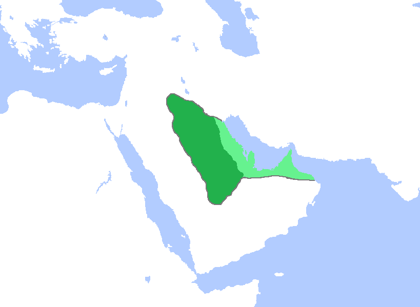 Map of the Lakhmid kingdom in 6th-century. Dark green is their own territory, whilst light green is Sasanian territory they governed. Sources; Sauer, Eberhard (2017) Sauer, Eberhard , ed. Sasanian Persia: Between Rome and the Steppes of Eurasia, Edinburgh University Press, pp. 1-336 Bosworth, C.E. (1975) "Iran and the Arabs before Islam" in The Cambridge History of Iran, Volume 3 (1): The Seleucid, Parthian and Sasanian periods, Cambridge: Cambridge University Press, pp. 593–613 ISBN: 978-0-521-20093-6.